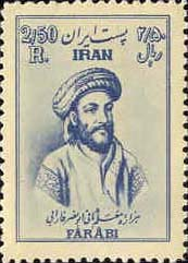 An Iranian stamp from 1950 with Al-Farabi's imagined face.